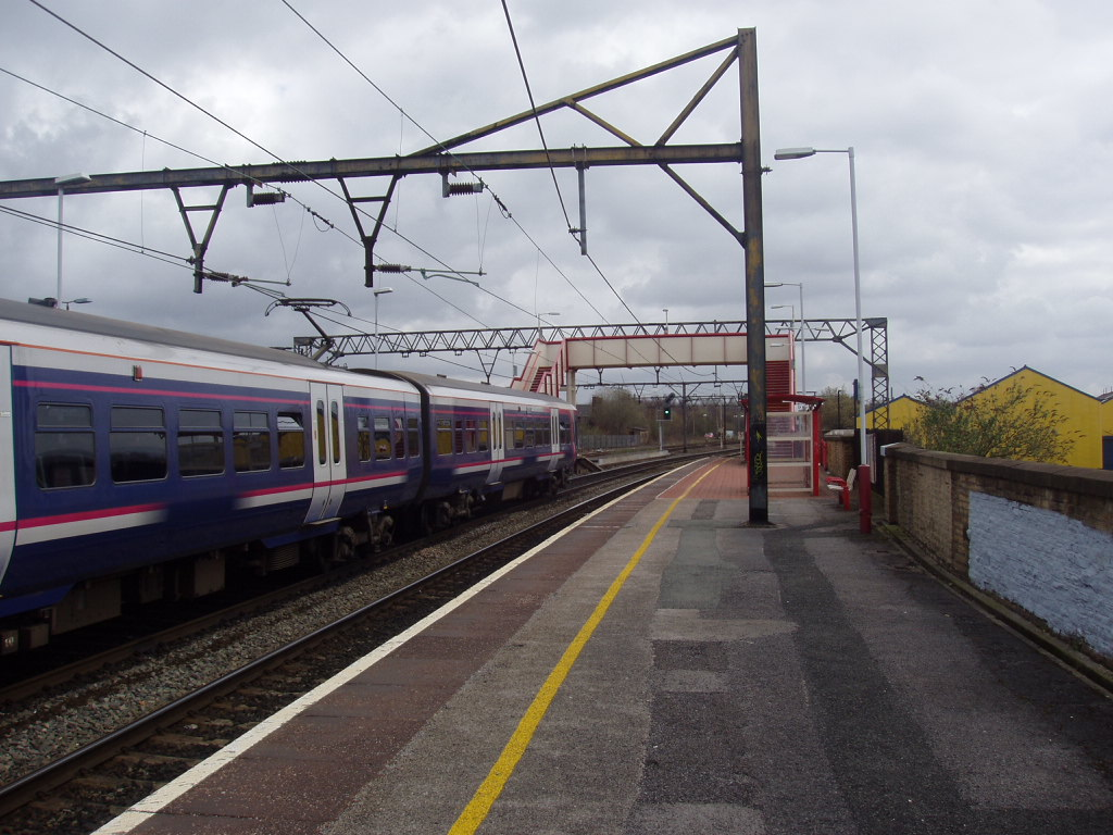 Picture shows Ashburys railway station in Manchester. The train shown to the left is a Northern Rail Class 323 in First North Western livery. Picture taken myself on the 12th April 2006 with an Olympus 5 megapixel camera. It is public domain.